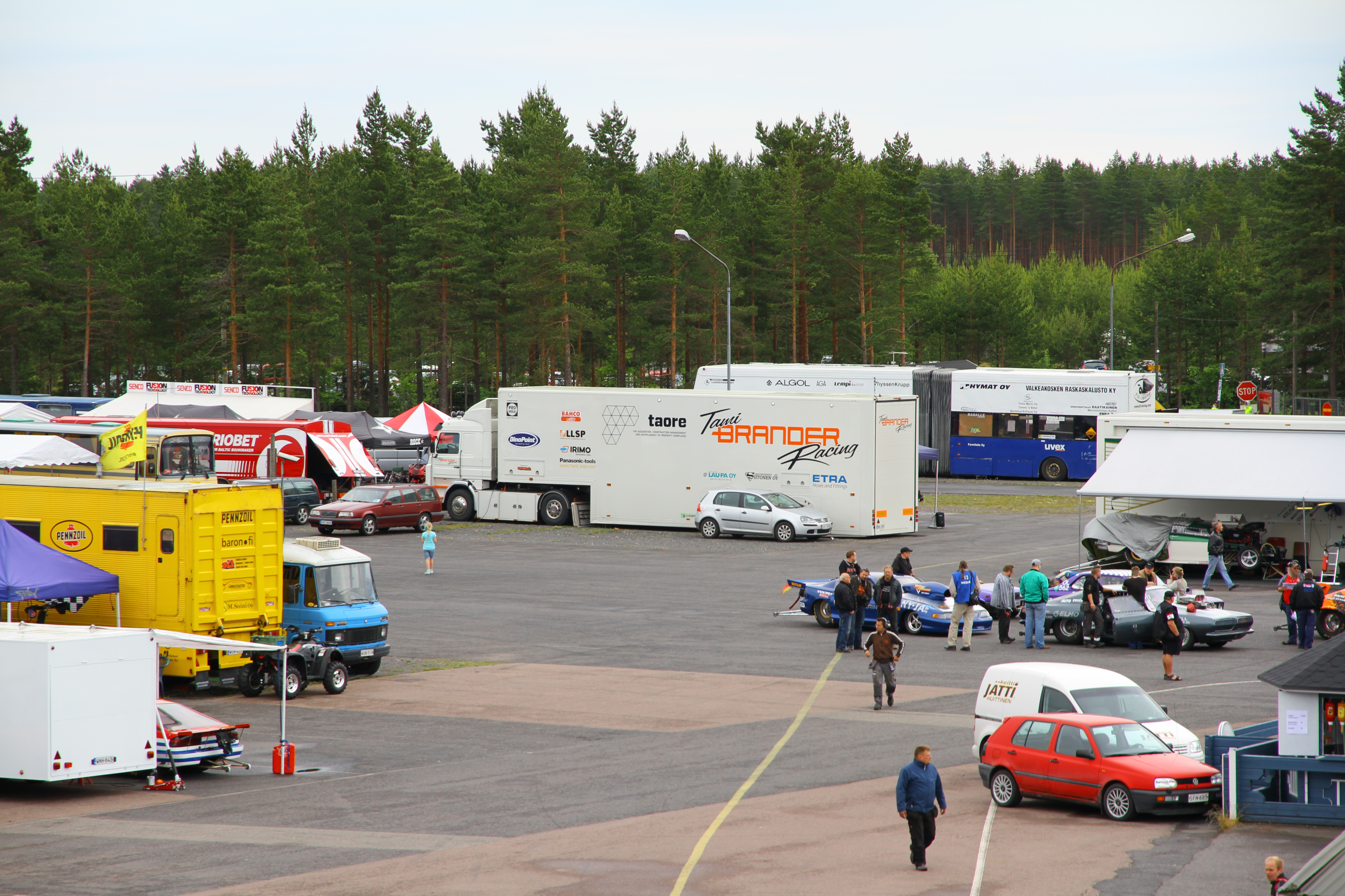 FHRA Kamasa Drag Race Week at Alastaro Circuit, Finland.